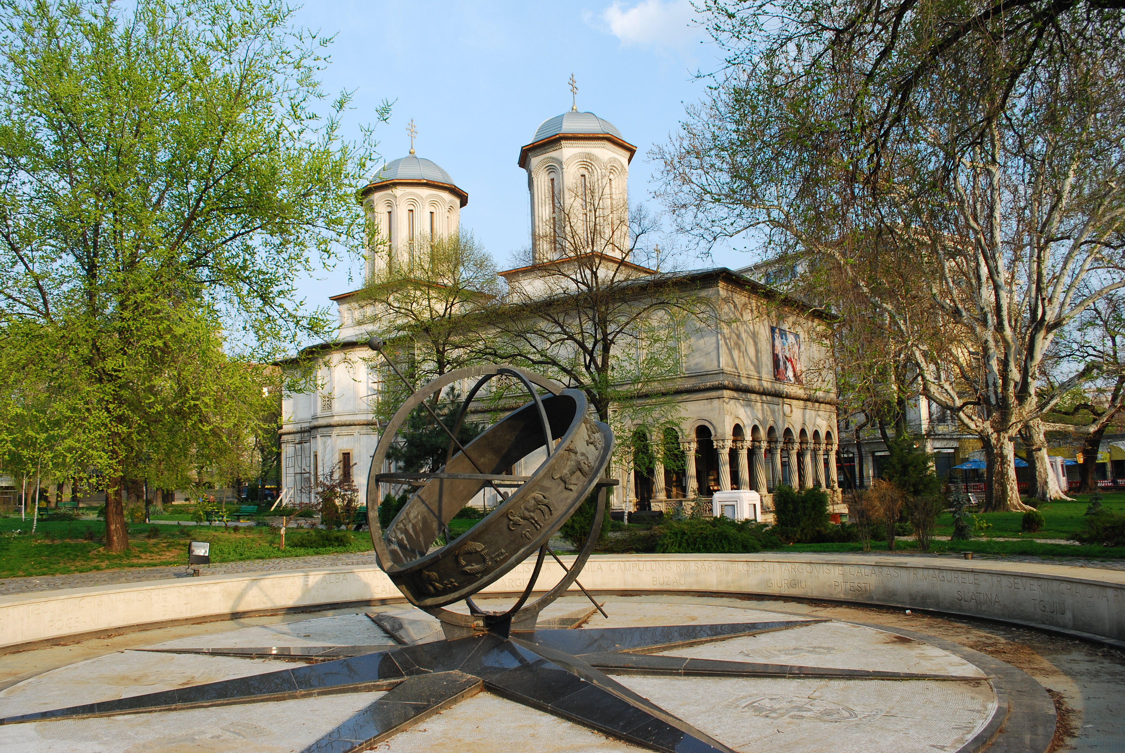 The Romanian Orthodox Saint George church in Bucharest, Romania, along with the "Kilometer 0" monument in its yard.